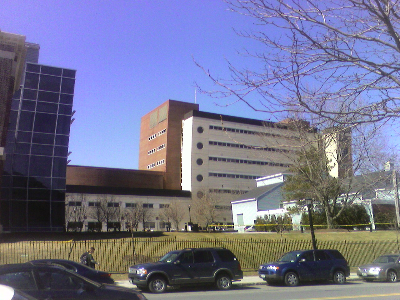 The east side of Rensselaer Polytechnic Institute's CII.